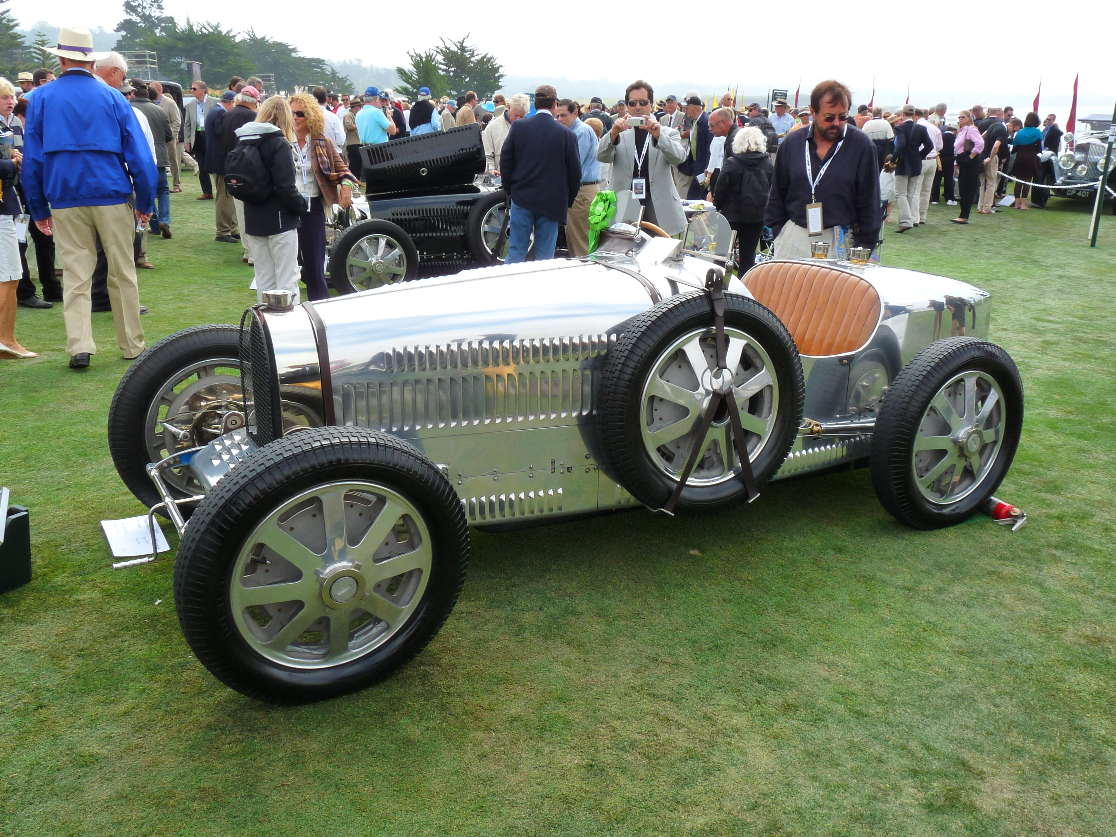 1931 Bugatti type 35A/51 Grand Prix